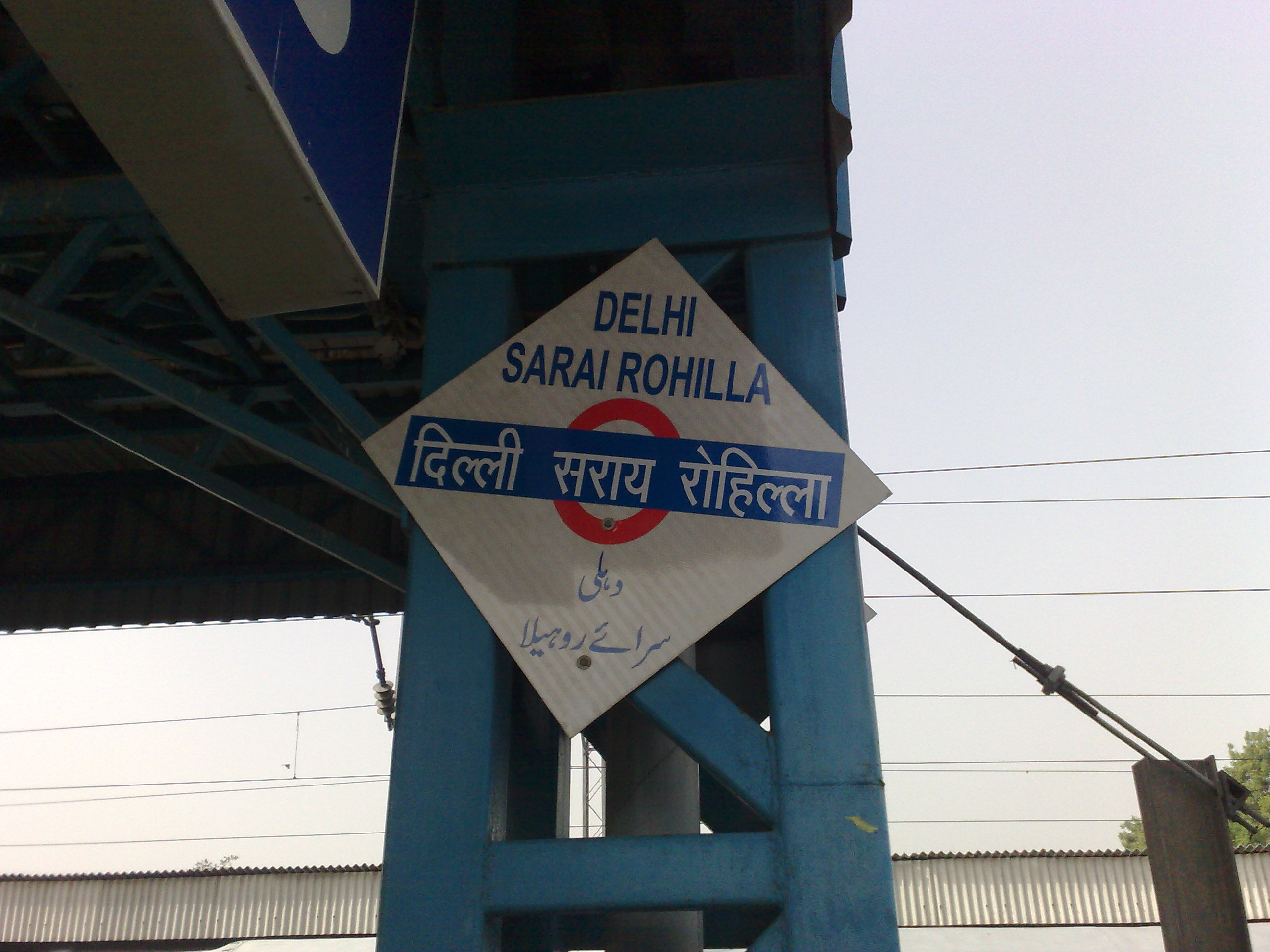 Delhi Sarai Rohilla - platformboard